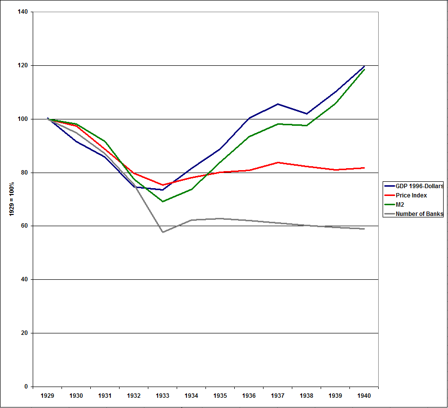 GDP (1996-Dollars) from United States Census Bureau - Historical Statistics ( other data from San Jose State University ( All data adjusted to 1929 = 100%.